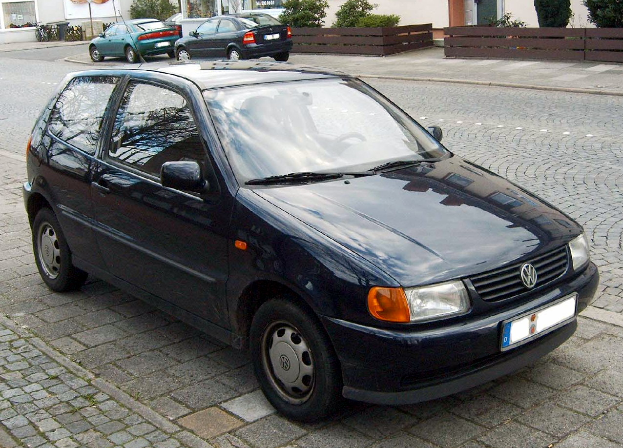 1400 cc - 3 Doors - Hatchback - 1995-96